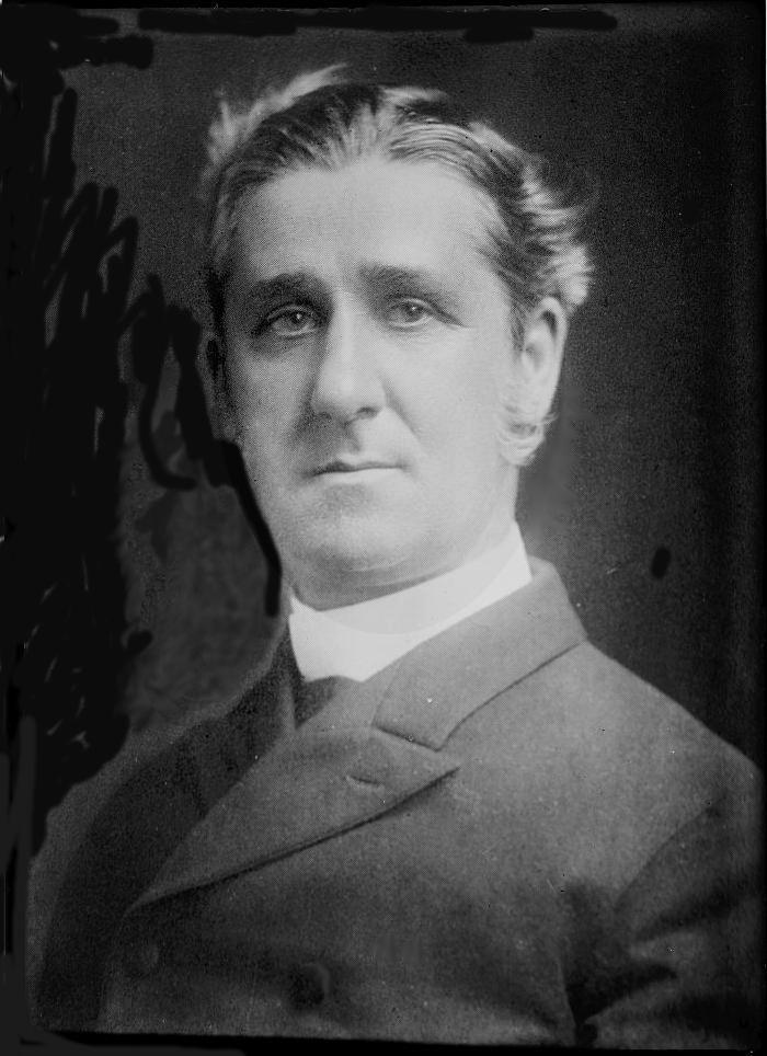 TITLE: President Thirkeld CALL NUMBER: LC-B2- 1323-9[P&P] REPRODUCTION NUMBER: LC-DIG-ggbain-07004 (digital file from original neg.) No known restrictions on publication. MEDIUM: 1 negative : glass ; 5 x 7 in. or smaller. CREATED/PUBLISHED: [no date recorded on caption card] CREATOR: Bain News Service, publisher. NOTES: Forms part of: George Grantham Bain Collection (Library of Congress). Title from unverified data provided by the Bain News Service on the negatives or caption cards. General information about the Bain Collection is available at FORMAT: Glass negatives. REPOSITORY: Library of Congress Prints and Photographs Division Washington, D.C. 20540 USA DIGITAL ID: (digital file from original neg.) ggbain 07004 CARD #: ggb2004007004